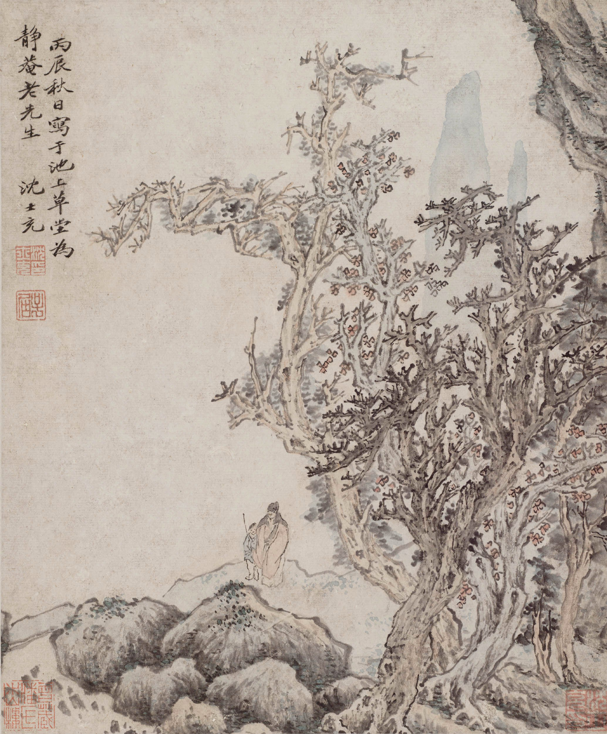 Shen_Shichong.Man_and_Servant_Beneath_Trees._1616._Collection_the_University_of_California,_Berkeley_Art_Museum